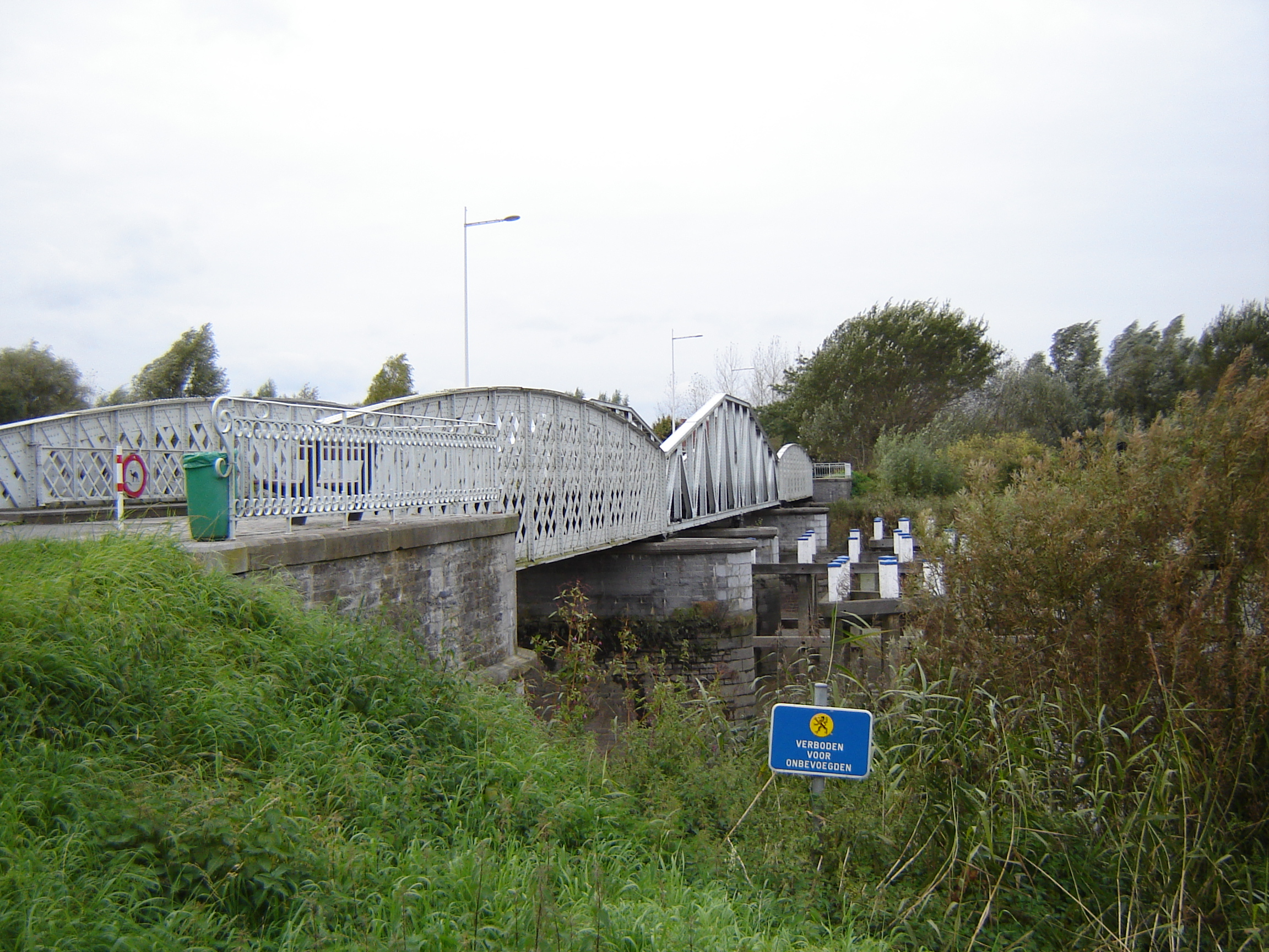 The Mirabrug bridge in Hamme. Hamme, East Flanders, Belgium